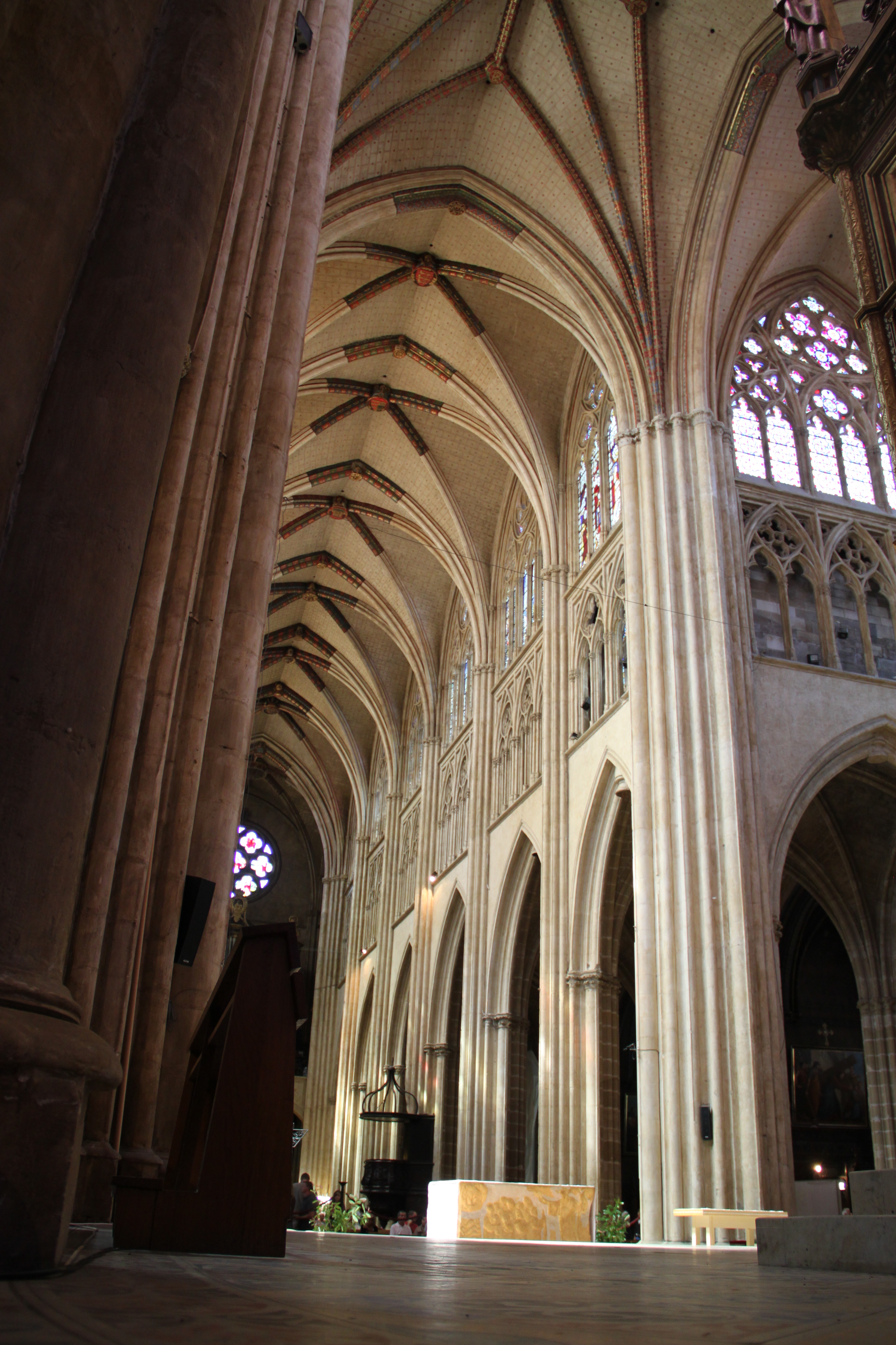 Interior of the Cathédrale Notre-Dame de Bayonne